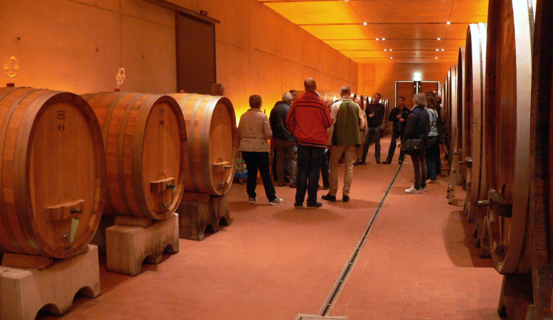 Wooden wine barrel cellar at Hessische Staatsweingüter Kloster Eberbach site Steinberg